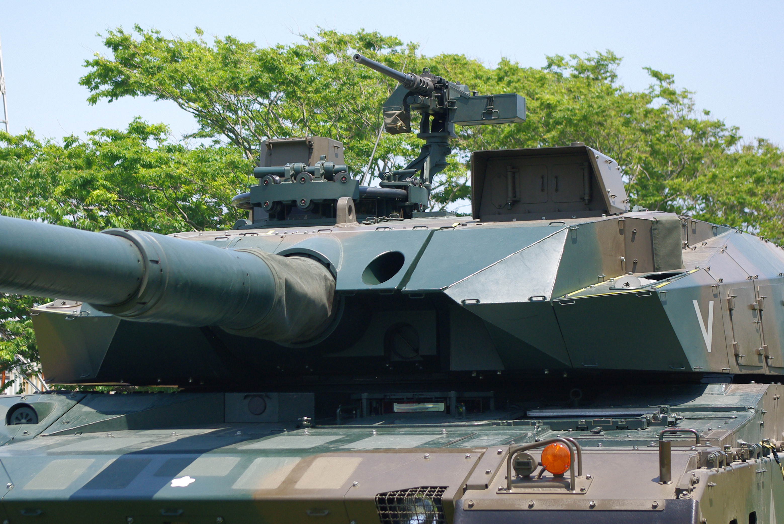 JGSDF Type10 Tank (production model),1st Armored Training Unit/Eastern Army Combined Brigade.Taken by Los688,in Camp Takeyama,Japan,at 27-May-2012.PD-self ja:10式戦車（量産型）2012年05月27日、東部方面混成団第1機甲教育隊 武山駐屯地で撮影。